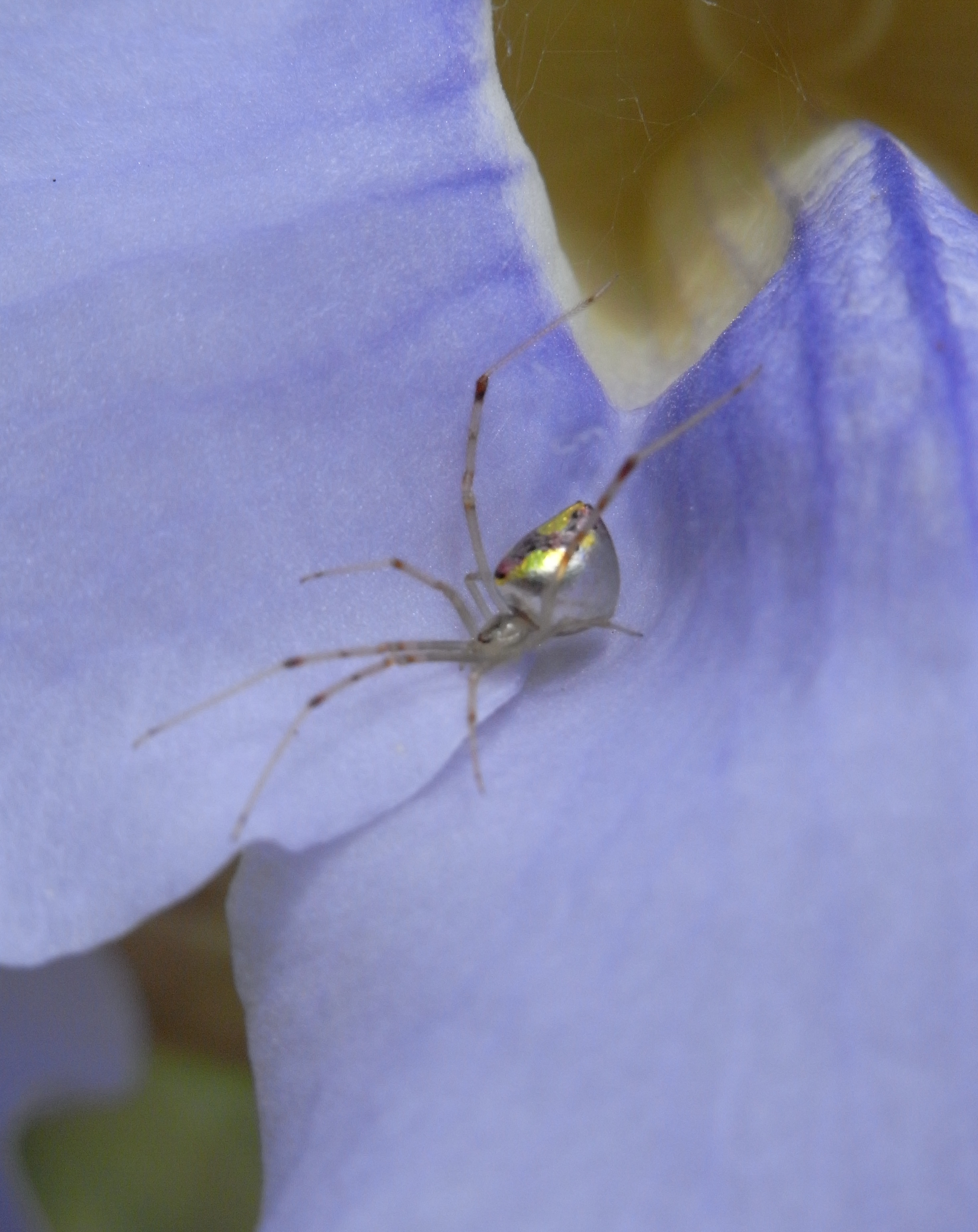 Dewdrop Spider (Argyrodes antipodianus) on a flower in the Billabong Koala and Aussie Wildlife Park, Port Macquarie, New South Wales, Australia.